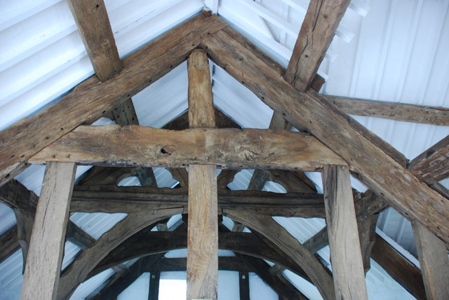 Penarth Fawr A detail of the roof timbers looking from the raised platform.